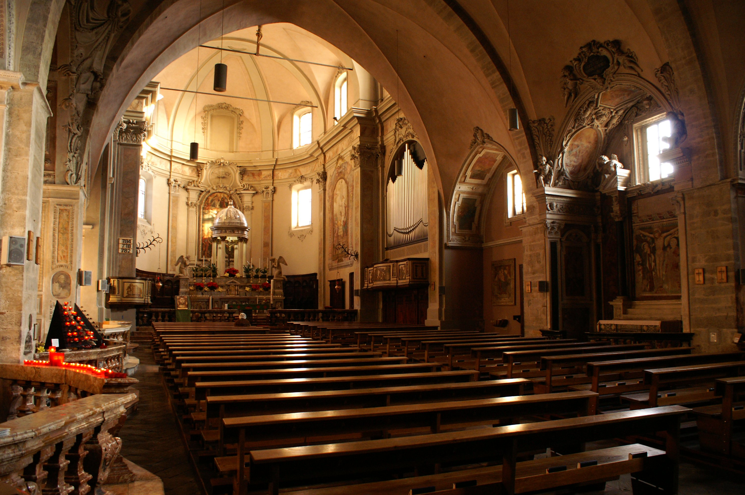 Inside of the church Santo Stefano of Tesserete - Ticino - Switzerland